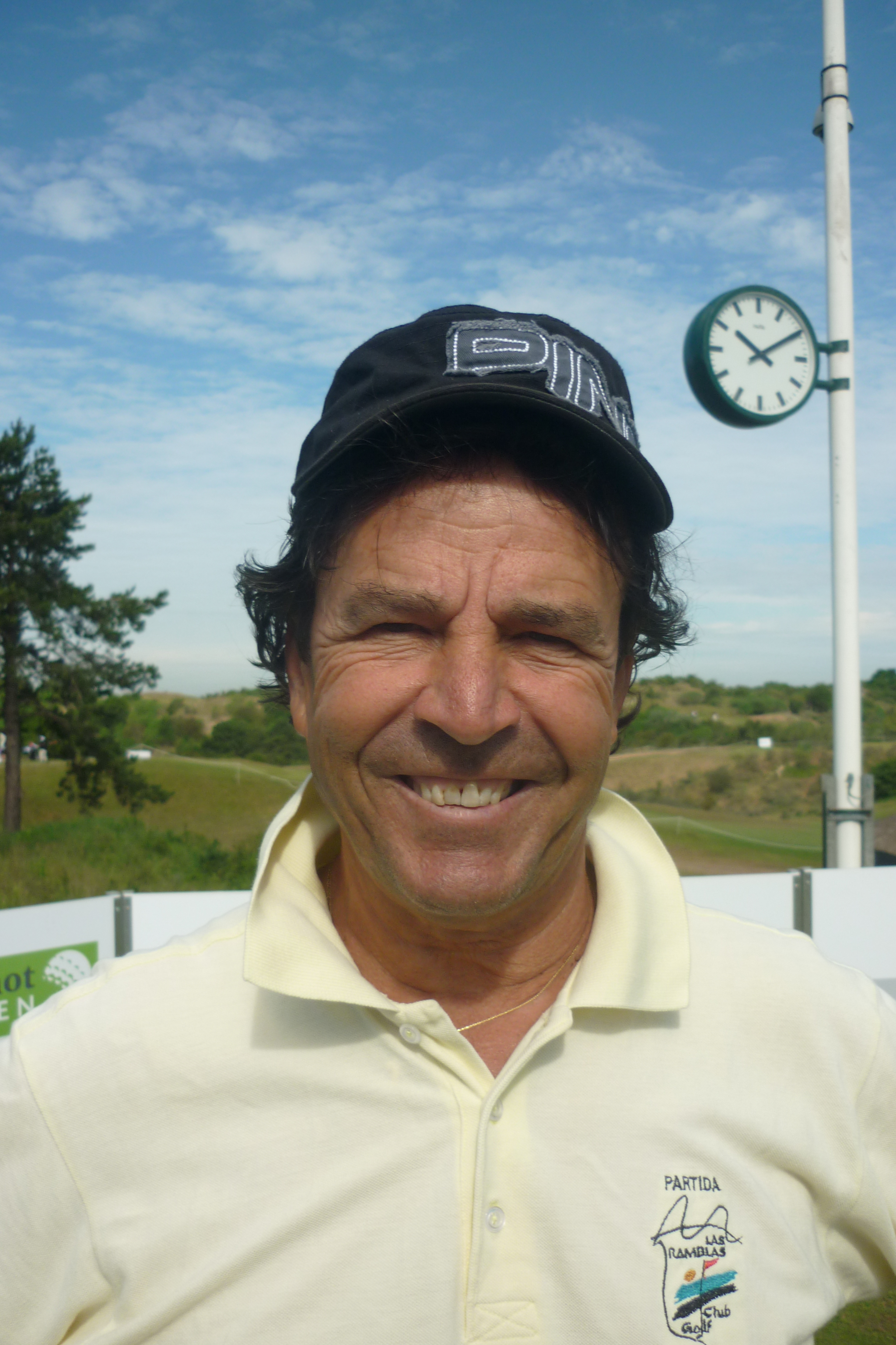 Emilio Rodriguez at Dutch Seniors Open